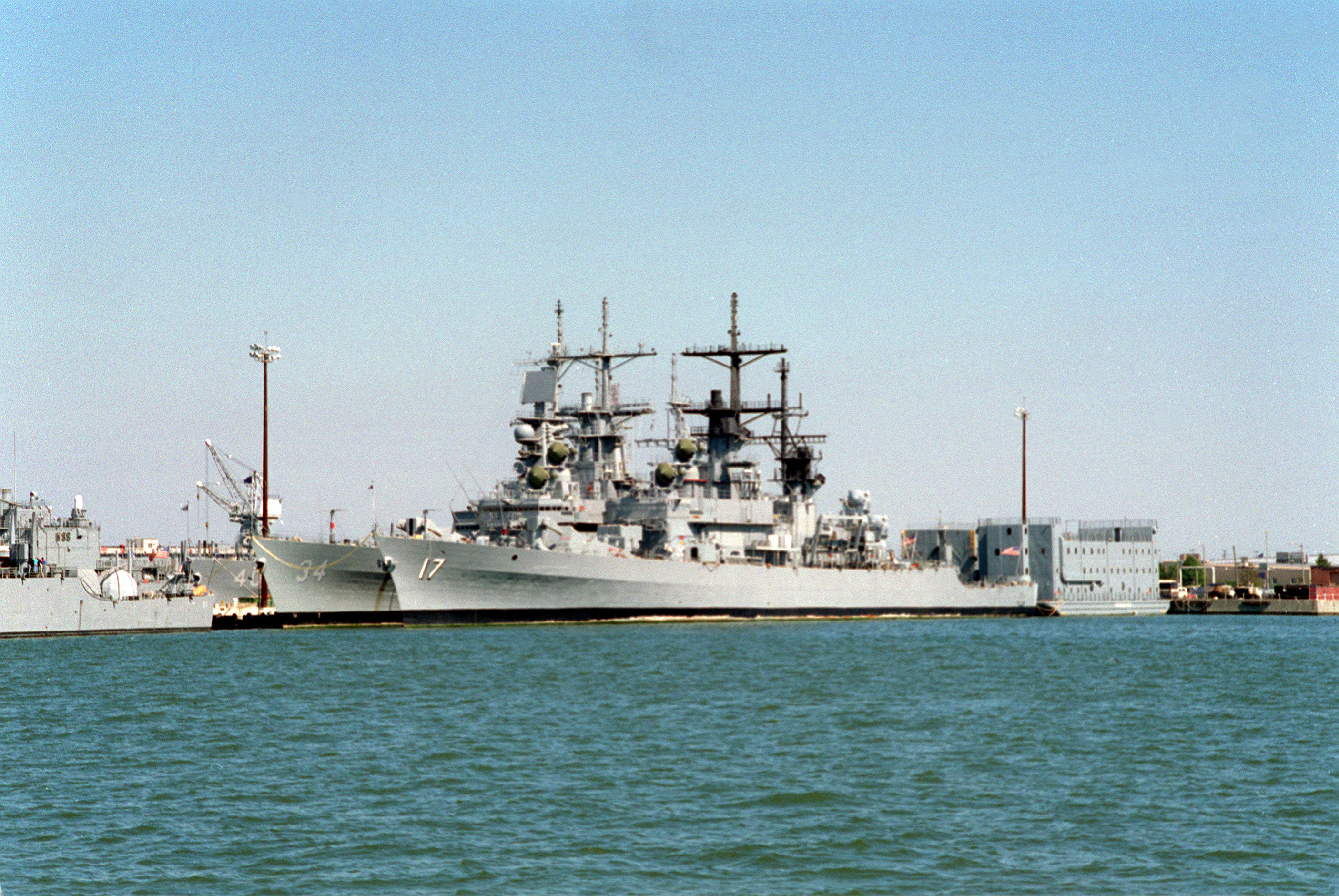 The U.S. Navy guided missile cruisers USS Harry E. Yarnell (CG-17) and USS Biddle (CG-34) moored together at the destroyer and submarine piers at Naval Station Norfolk, Virginia (USA), on 2 October 1993. Both ships had had their radar antennas removed prior to their decommissioning on 20 October 1993 (Harry E. Yarnell) and on 30 October 1993 (Biddle). USS Mississippi (CGN-40) is visible behind Biddle, USS Thomas S. Gates (CG-51) is moored in front of Harry E. Yarnell.